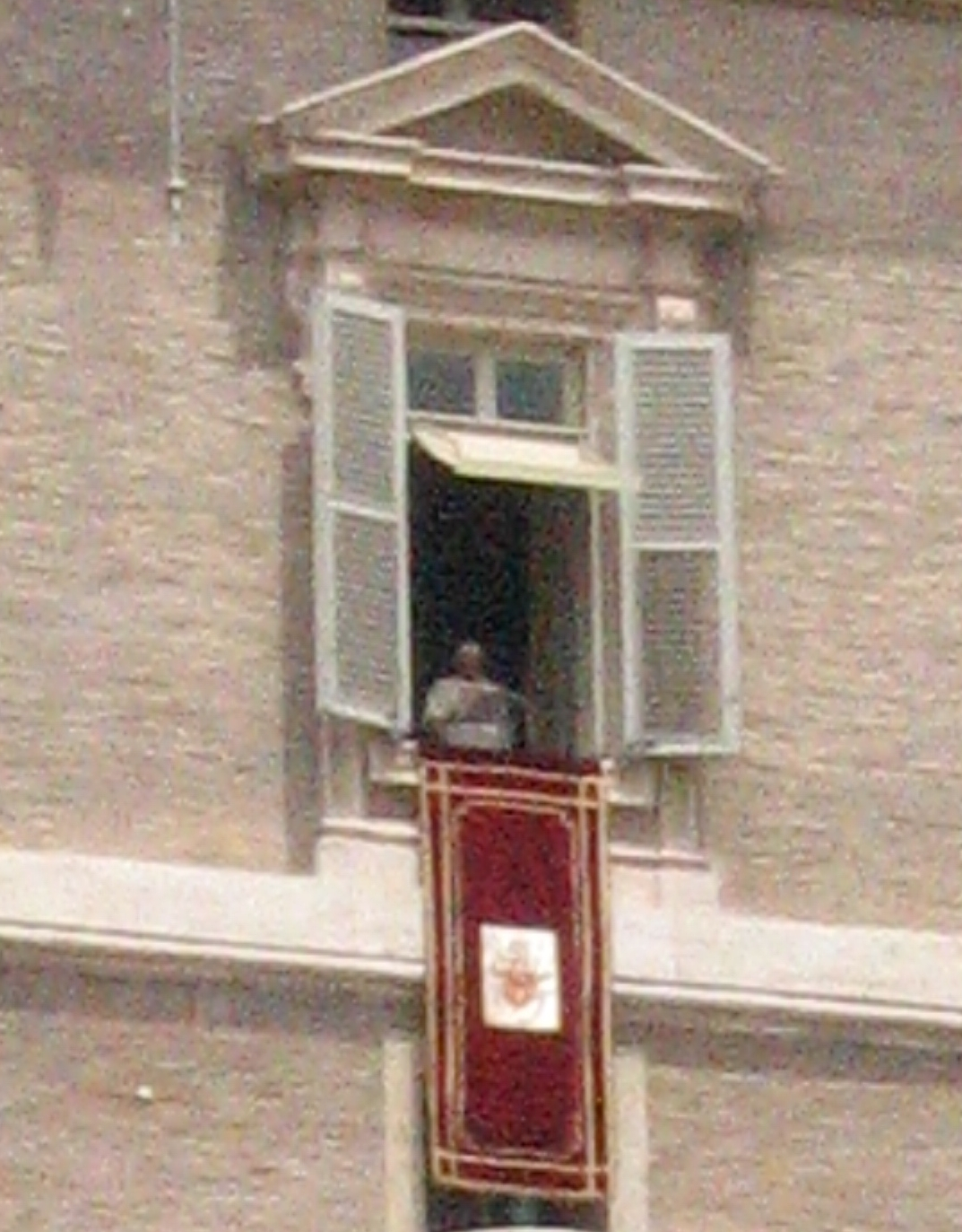 Pope Benedict XVI during the Angelus prayer, S. Peter Square, 29 june 2006